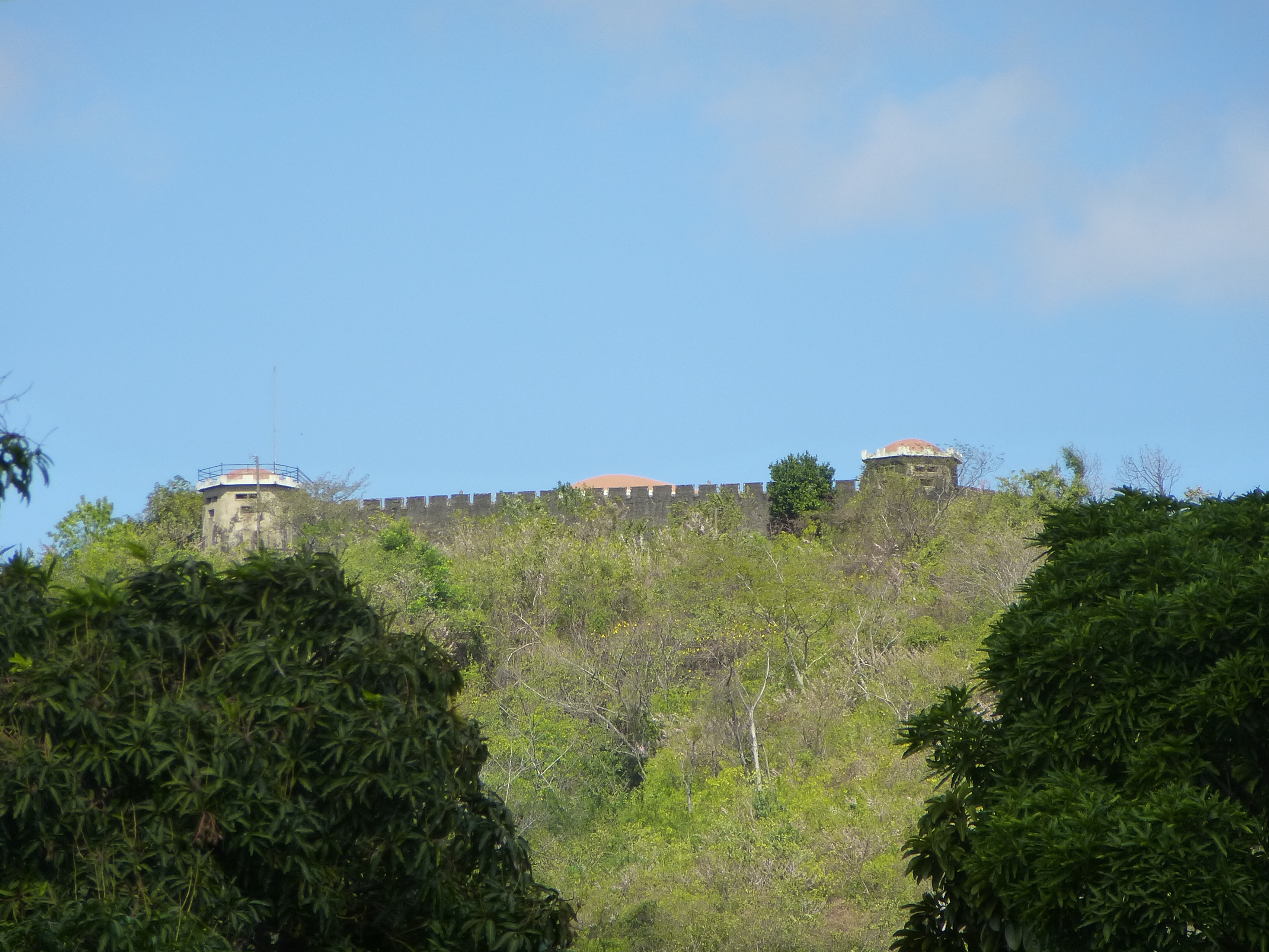 Fort Coyotepe, Masaya (Nicaragua)